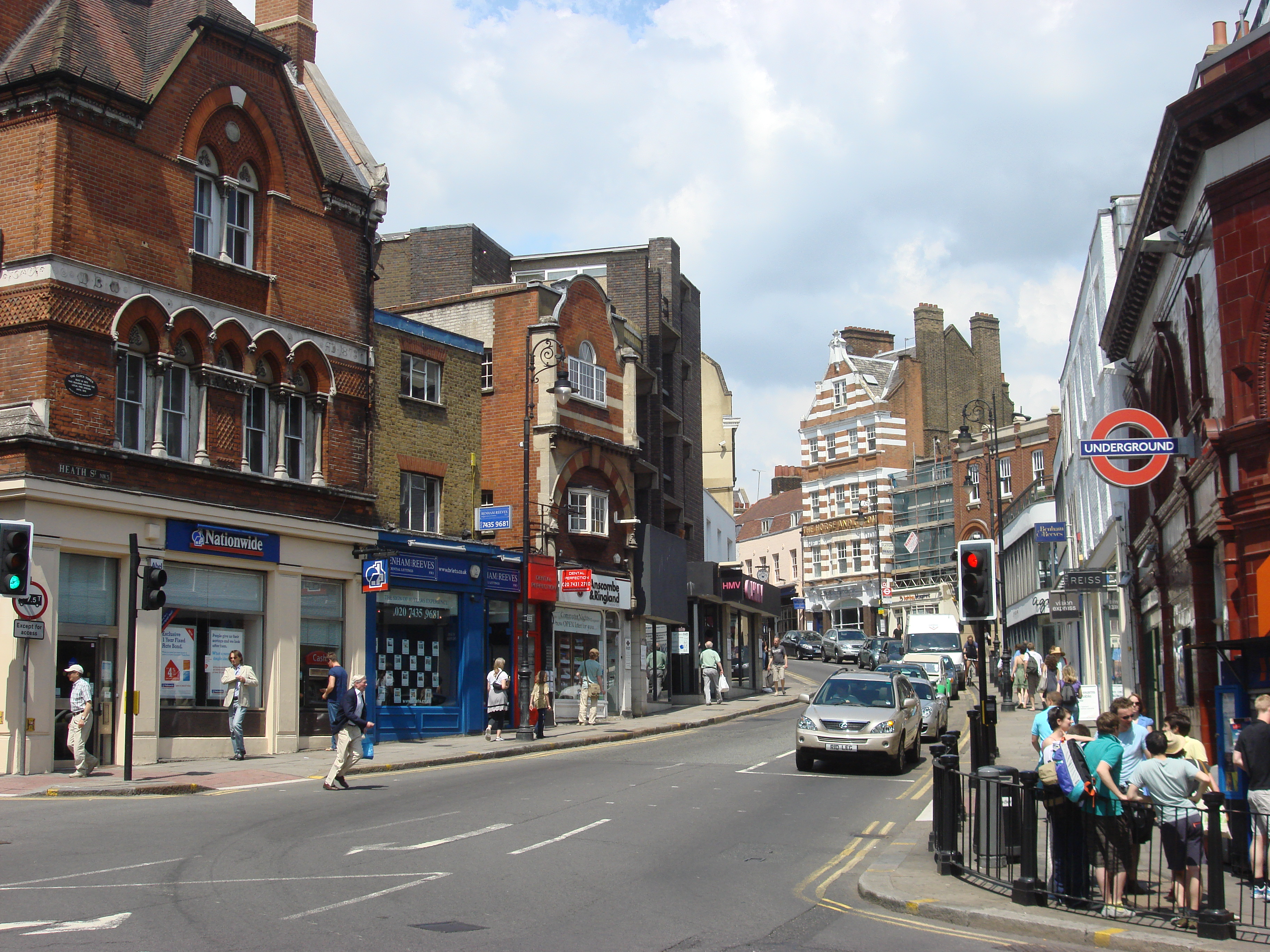 Hampstead